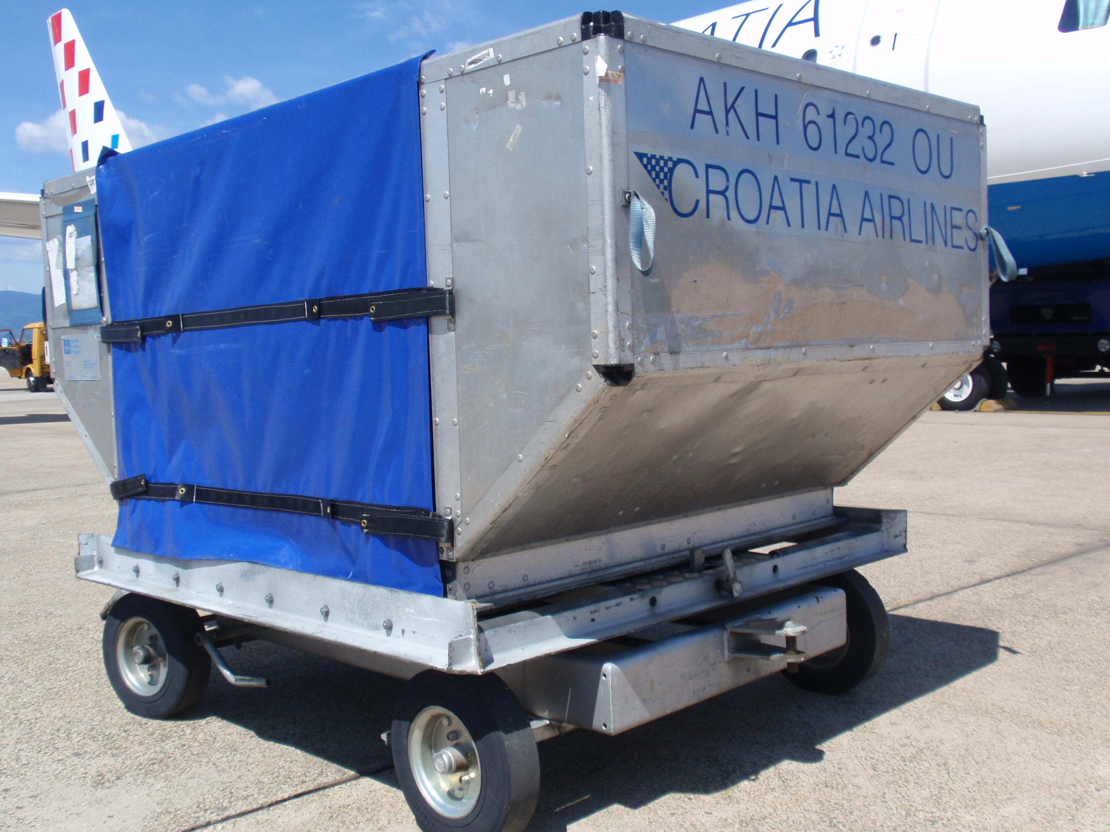 LD3 45W container for Airbus A320/321.